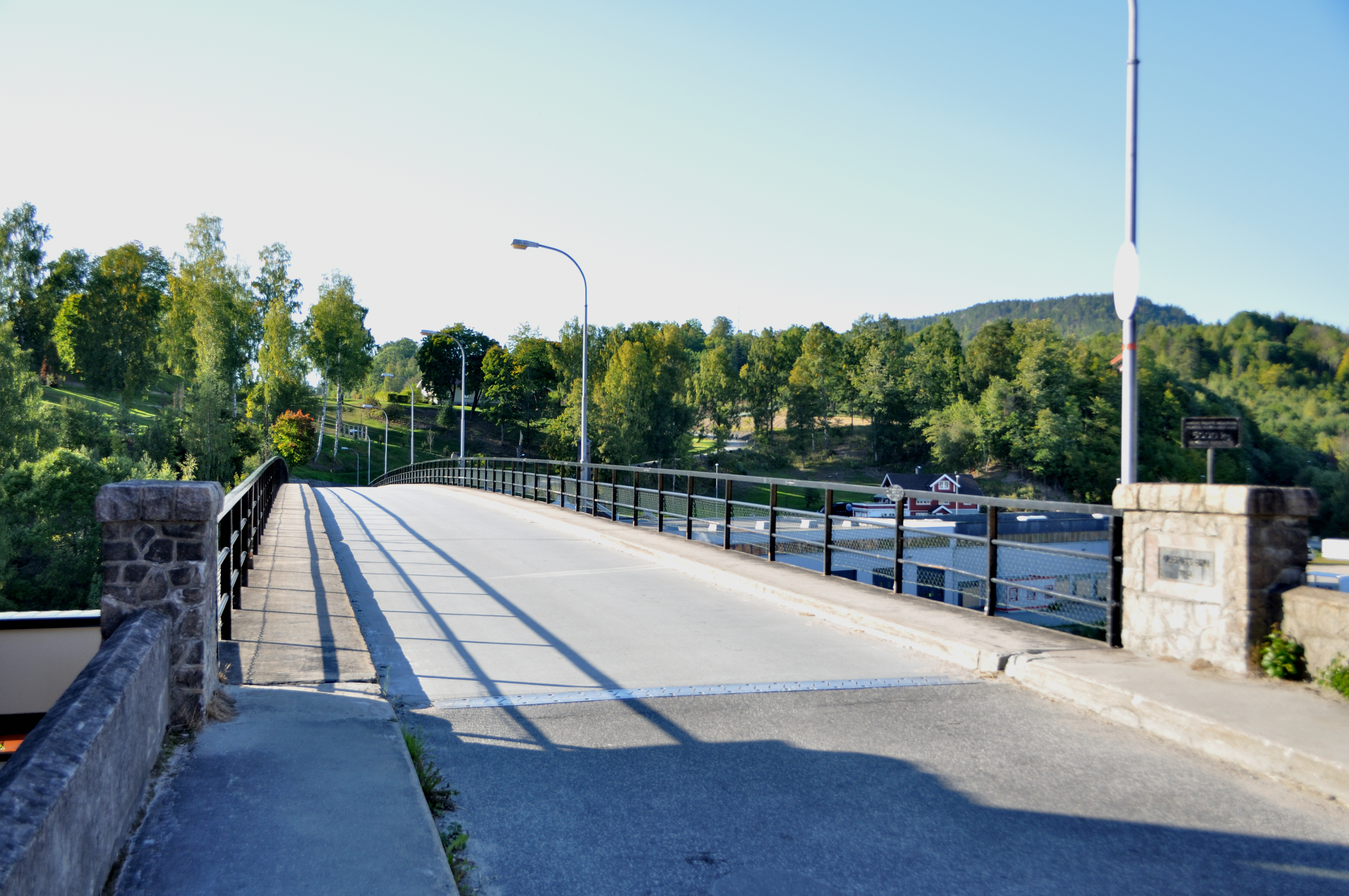 Ulefoss bridge across the Canal/Eidselva, looking North/west